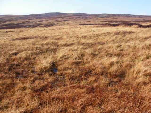 Golden moorland of Blaenpedol This view looks across the sweep of wild moorland towards the summit cairns of Tair Carn Uchaf. A light snow shower had swept by a few minutes earlier reducing visibility greatly and then the sun broke through revealing a golden landscape.